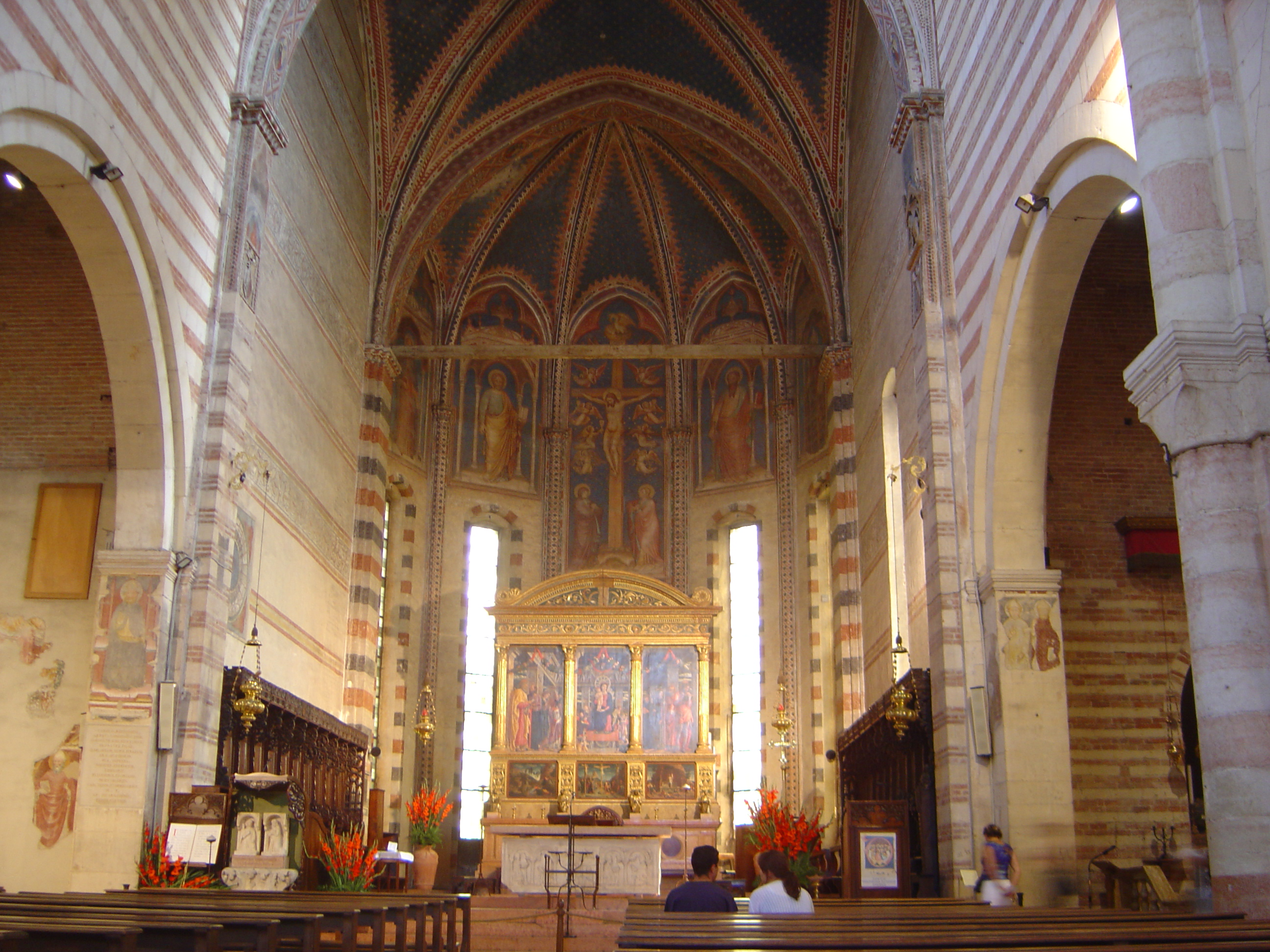 San Zeno basilica, Verona, Italy